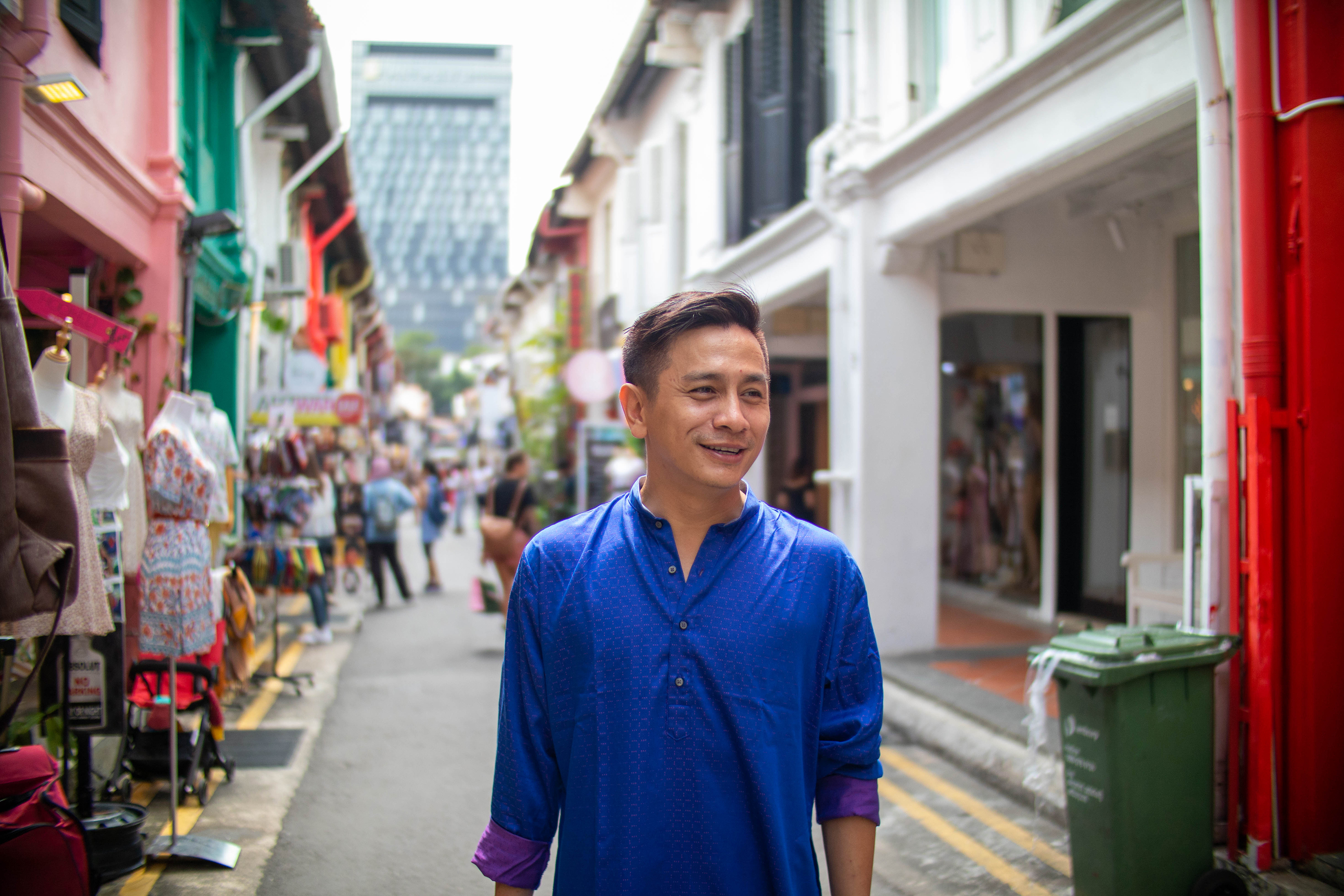 Dinh Toan in Singapore 20019